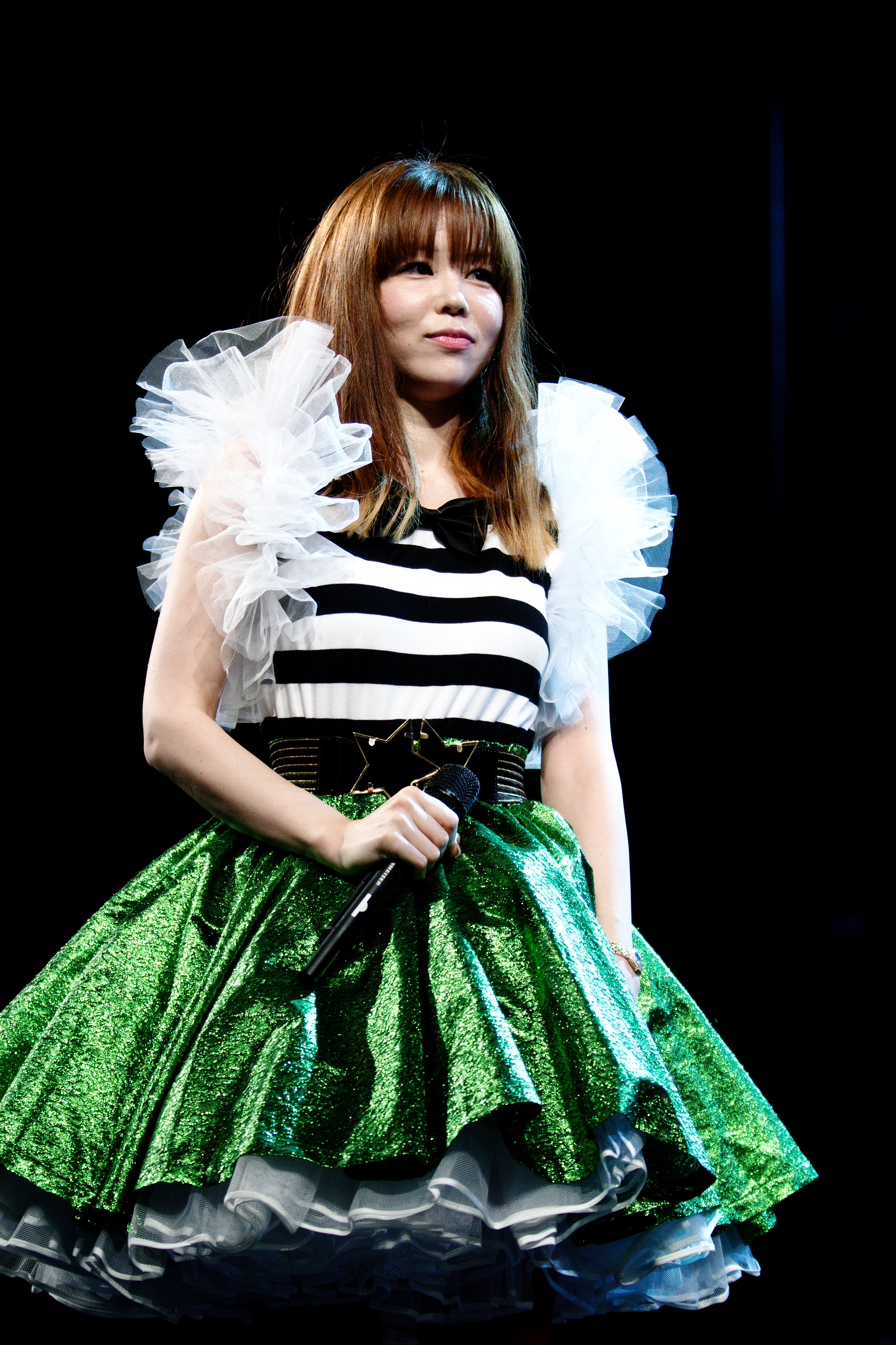 MEG live at Japan Expo 2011 (Paris, France).